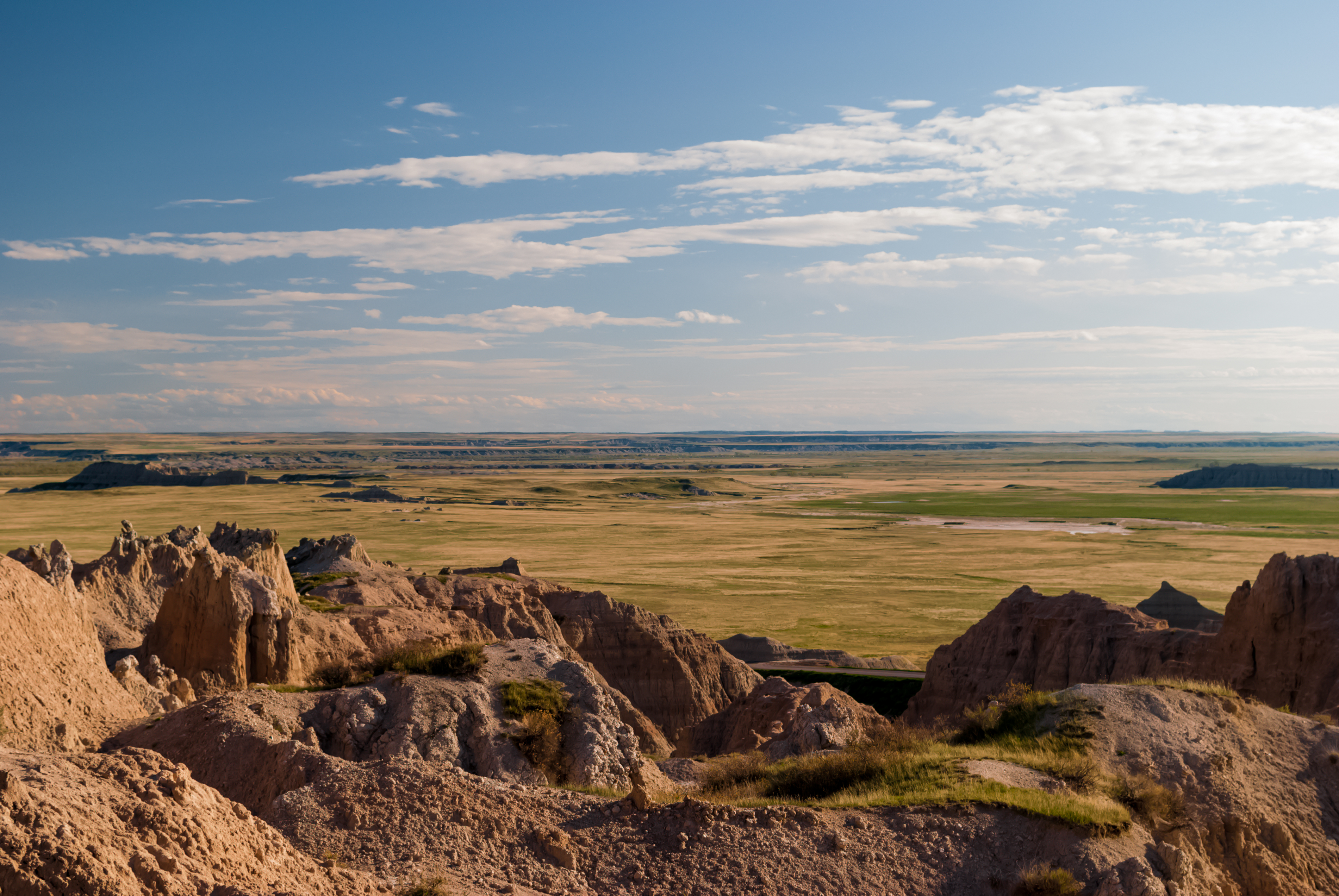 A view of the horizon, into the valley below at Badlands National Park